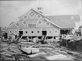 Perley and Pattee's Sawmill, Chaudière Falls near Ottawa. Shot in front of mill, horses and carts